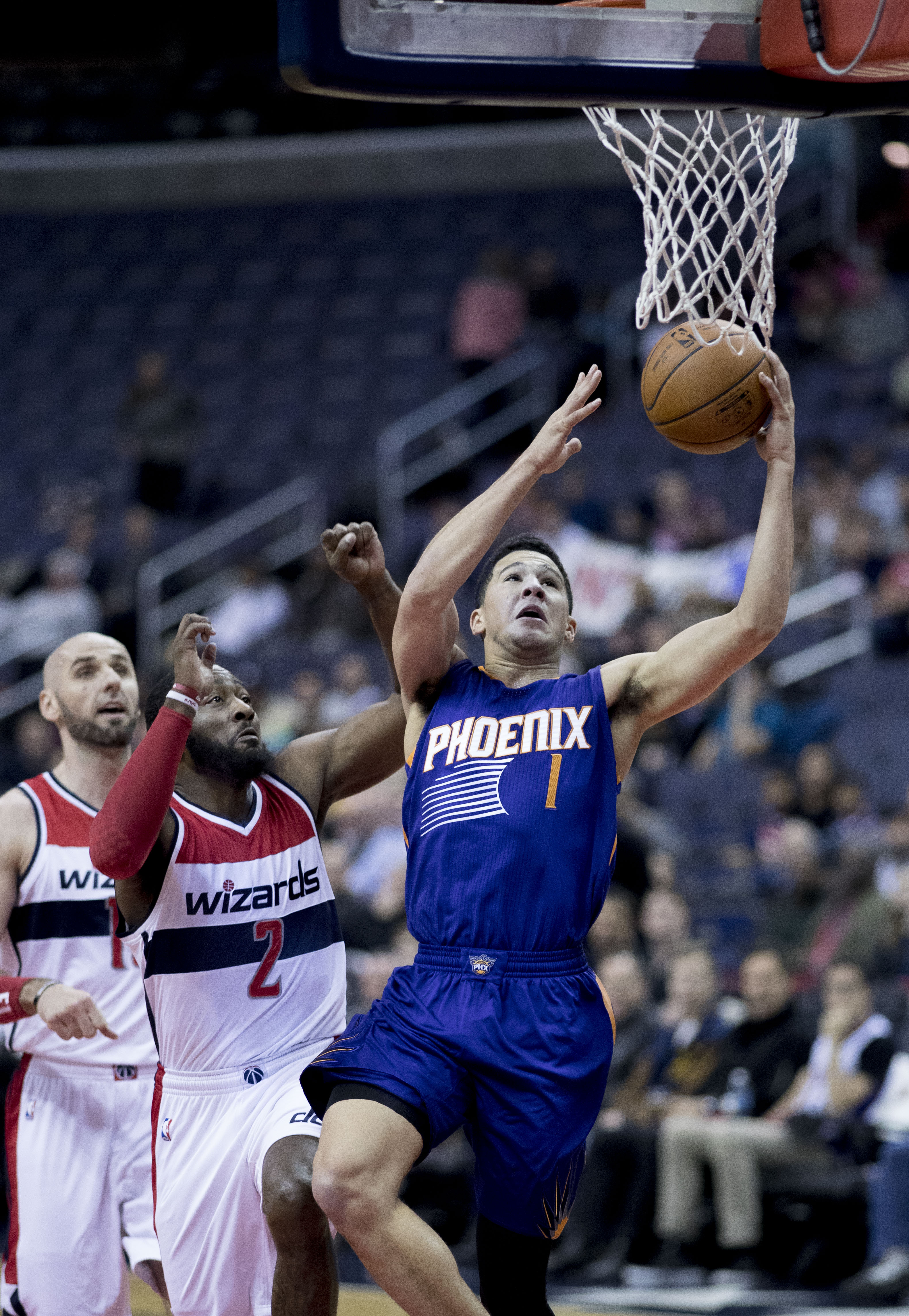 Suns at Wizards 11/21/16